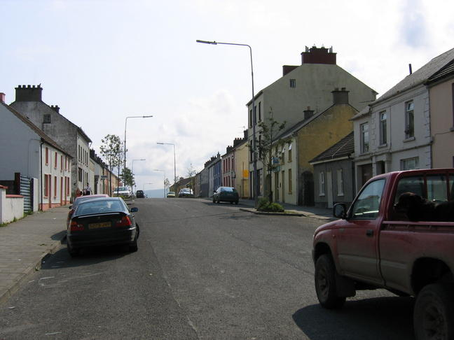 St Johnston (Baile Suingean), Co Donegal, ÉIRE